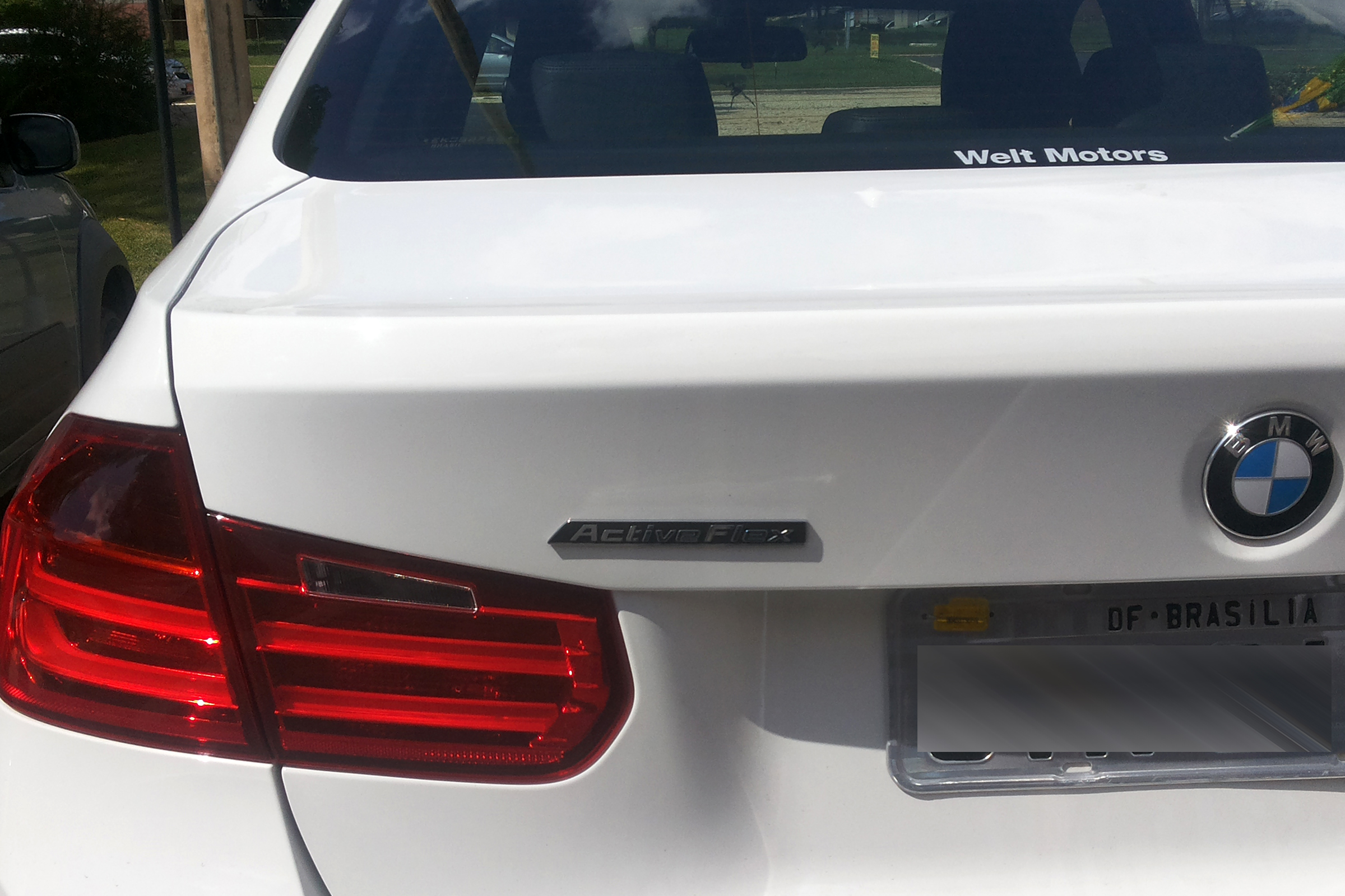 ActiveFlex badge used by BMW in its 320i flexfuel Brazilian models